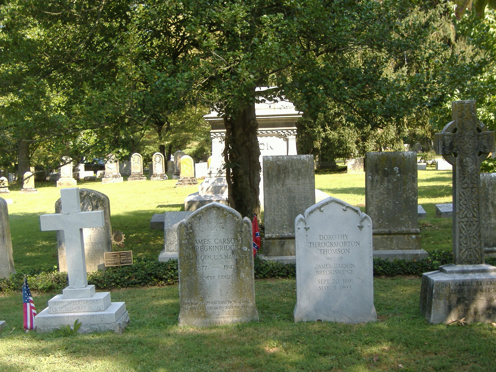 Grave of James Carson Breckinridge, at Lexington Cemetery in Lexington, Kentucky.